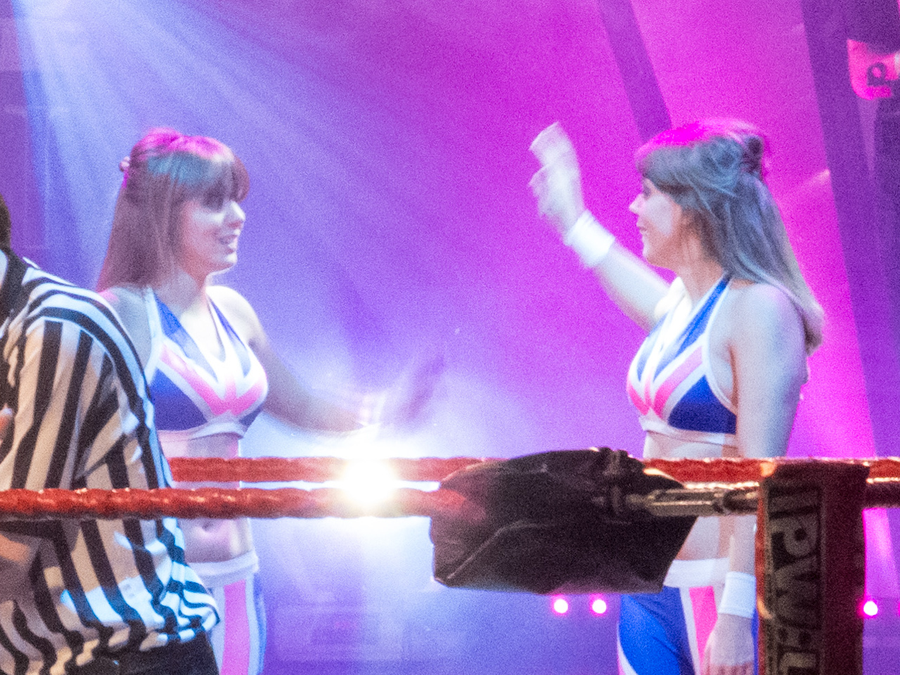 Professional wrestlers Holly and Hannah Blossom at IPW:UK's Revolution show in April 2012. Cropped from original.